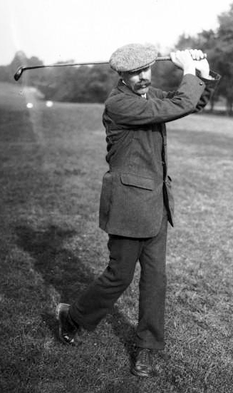 Scottish golfer James Braid (1870-1950) playing at the Open de France at Chantilly in 1913